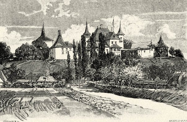 Kornis castle in Manastirea, Cluj County